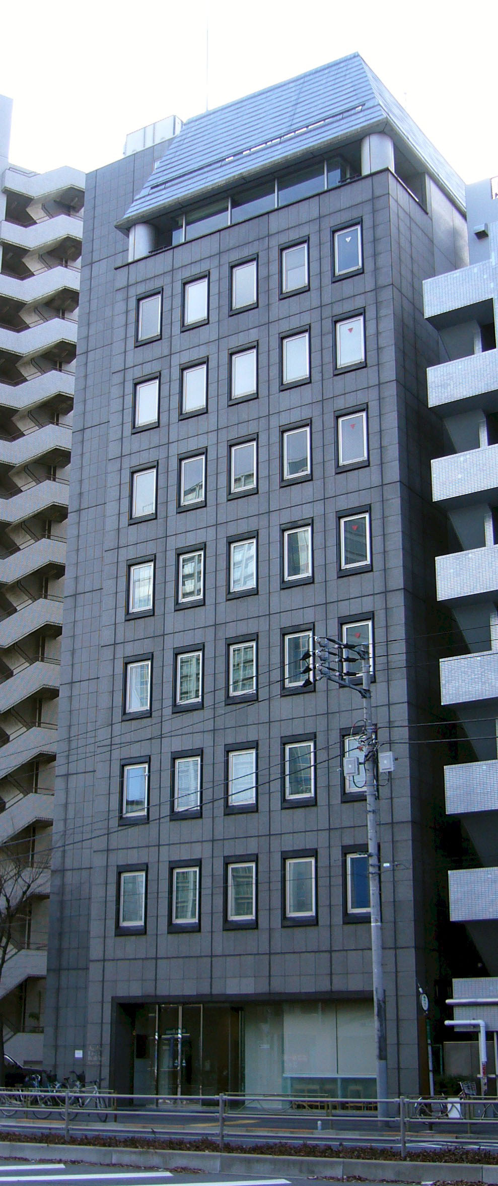 Azabu East Building (Office building in Tokyo, Japan)